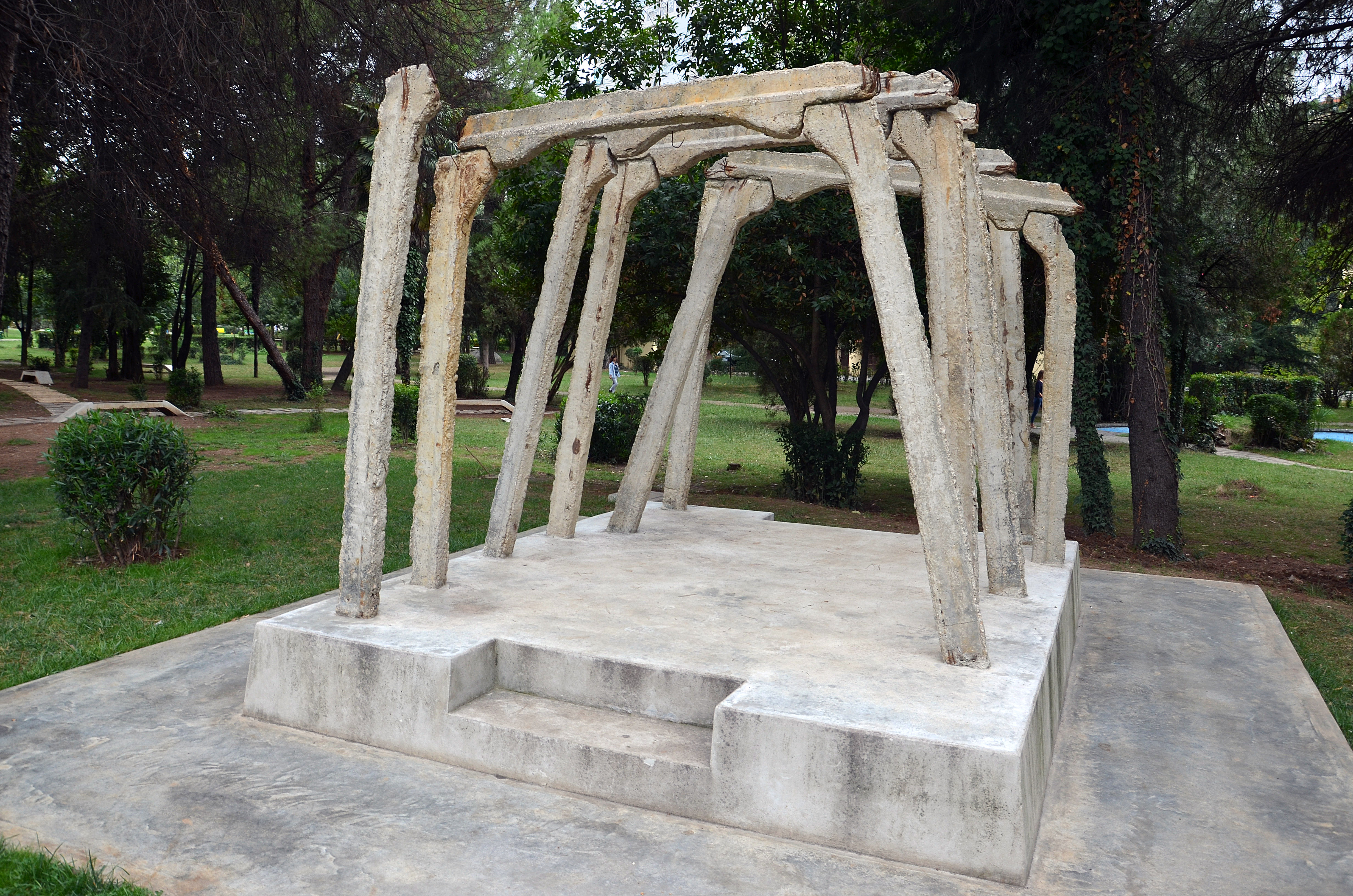 The memorial of the Spaç Prison in Tirana, one of the monuments of the memorial place called Post-Bllok, made of the concrete pillars of the Spaç mines where the prisoners were forced to work